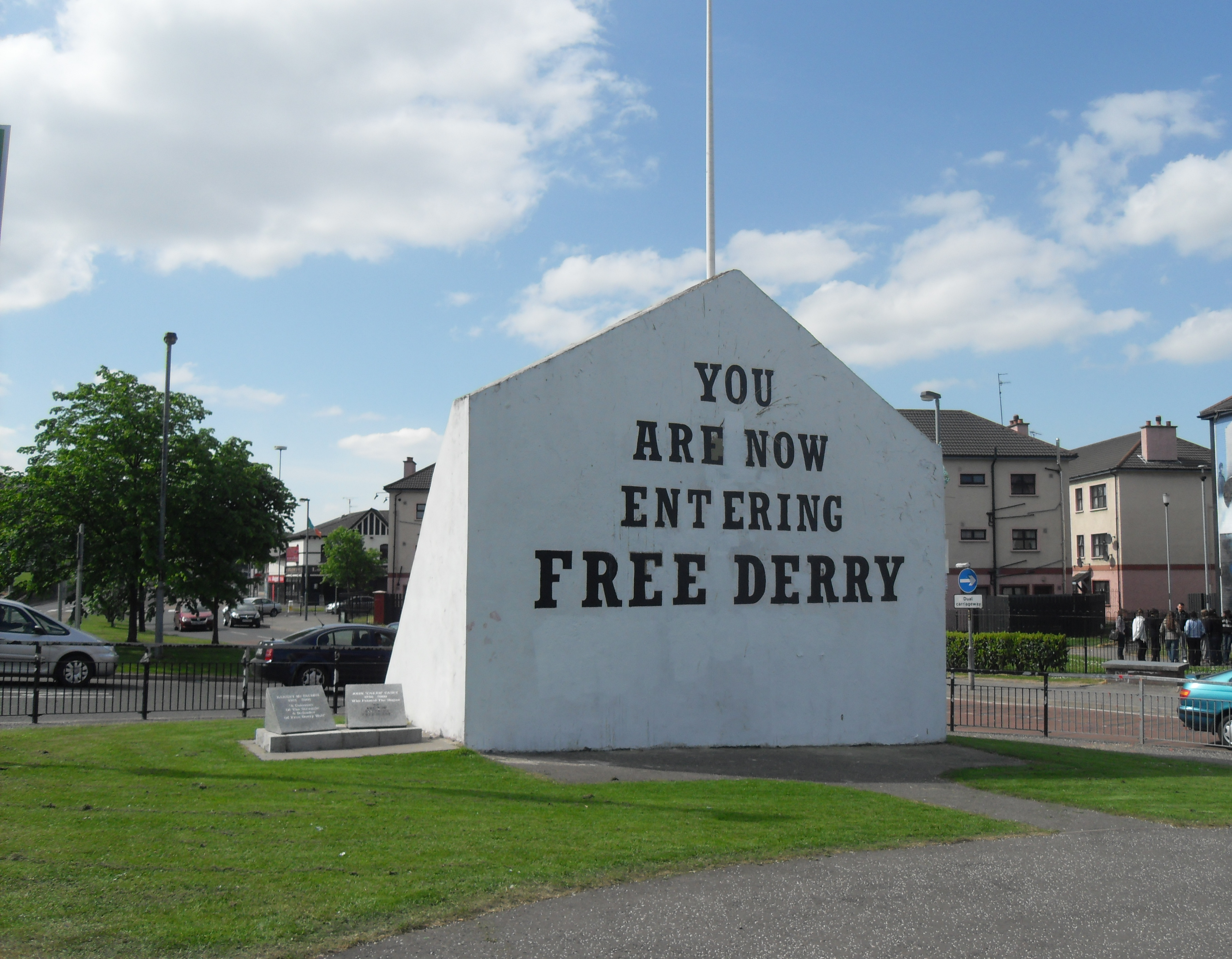 Free Derry corner. Mural painted in 1969 in the early days of Free Derry, self claimed autonomous area in Londonderry (Ulster)